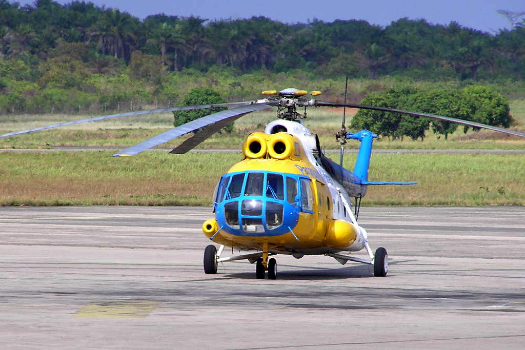 9L-LFG, Freetown - Lungi International Airport (FNA/GFLL), 04 April 2005 Mihai.crisan 22:27, 24 July 2007 (UTC)